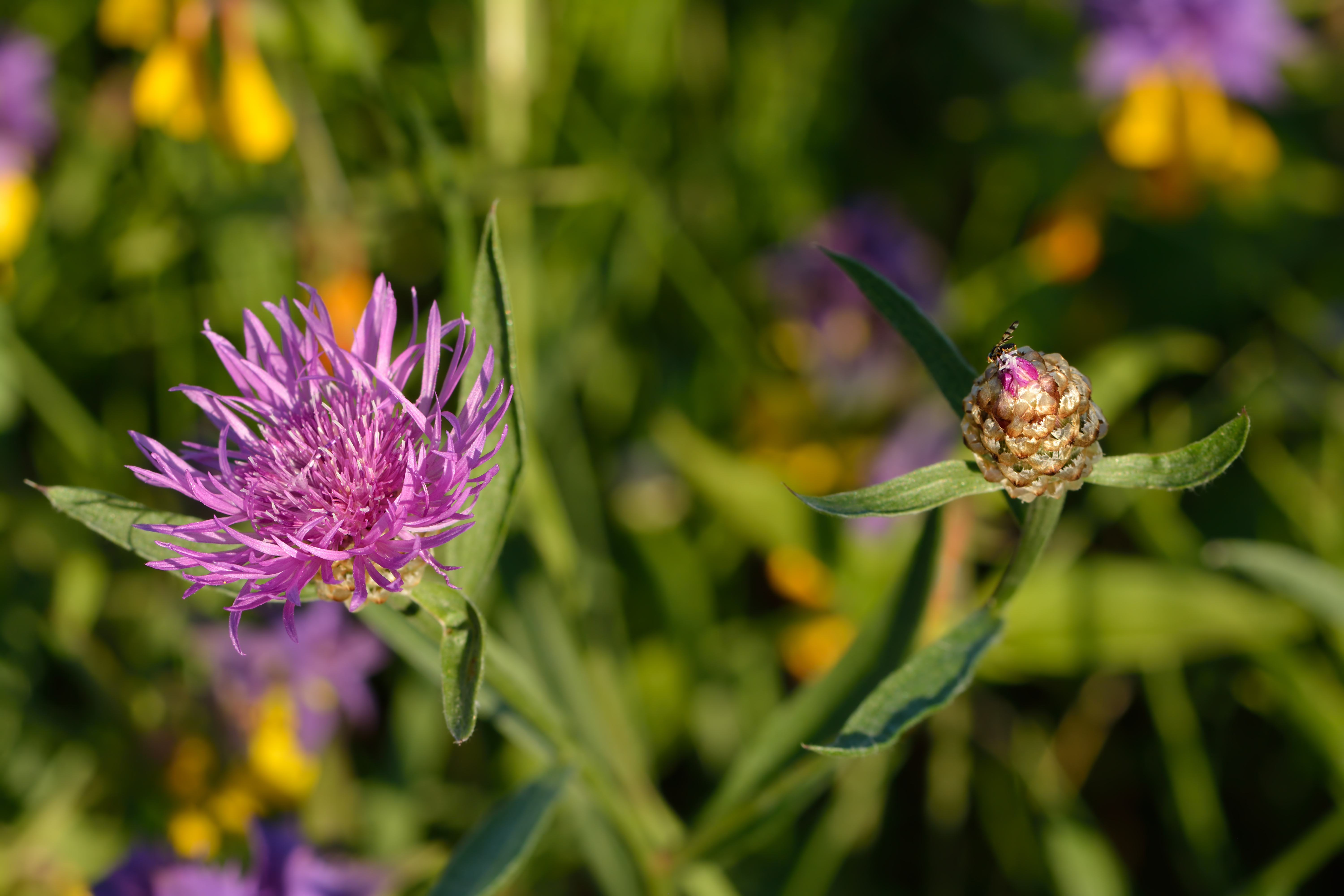 Brown knapweed (Centaurea jacea). Keila, Northwestern Estonia.